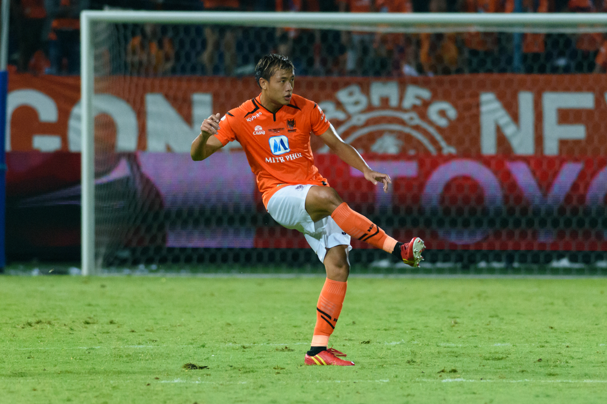 Pawee Tanthatemee during the Thai FA Cup Final 2019 vs Port FC